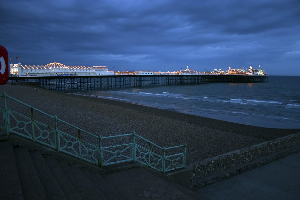 The Brighton Marine Palace and Pier is a pleasure pier in Brighton, England - UK.